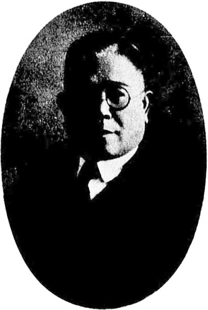 Kunieda Hiroshi.